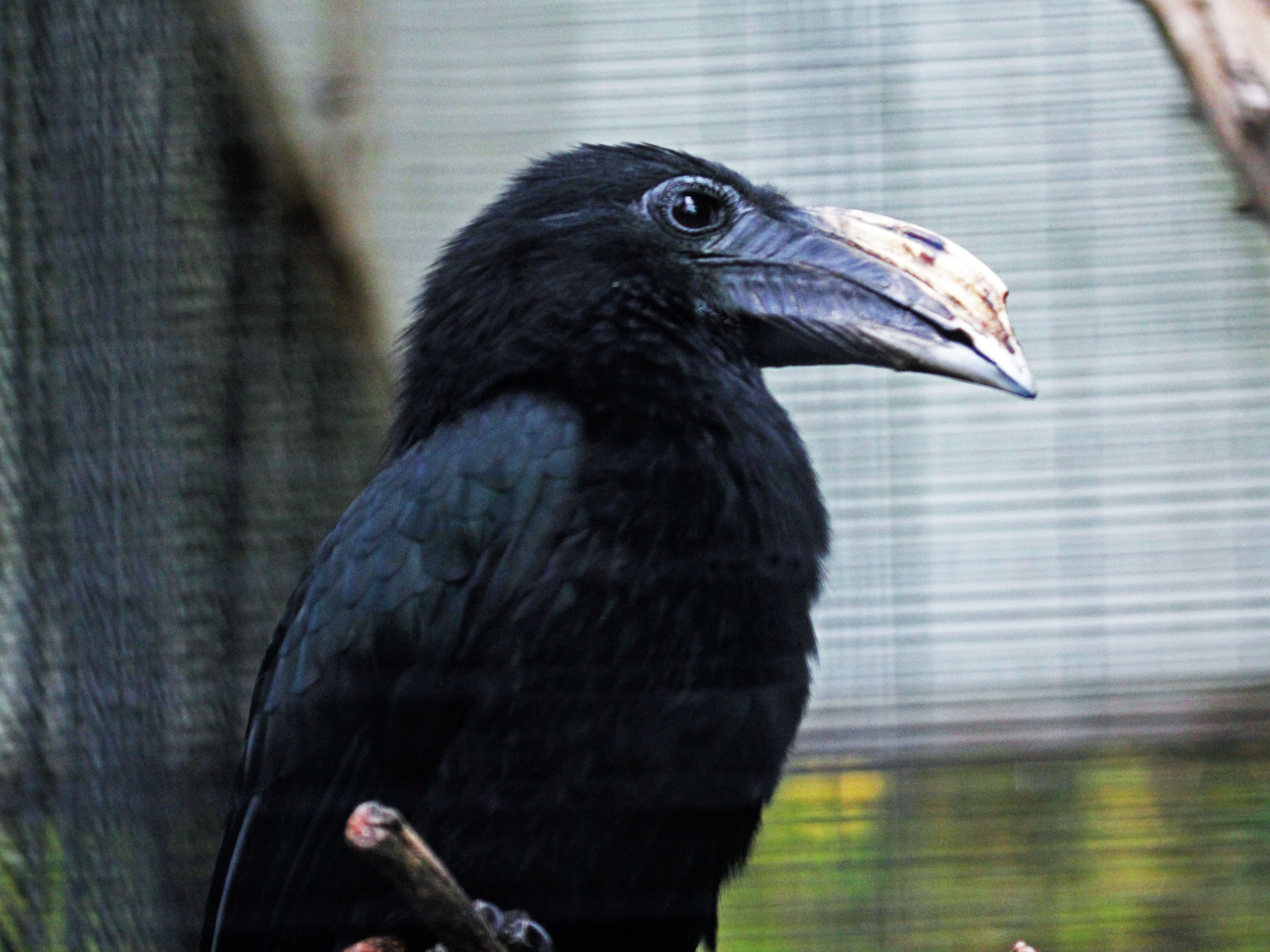 Female Sulawesi Hornbill (Penelopides exarhatus) - San Diego Zoo. This is subspecies Penelopides exarhatus sanfordi